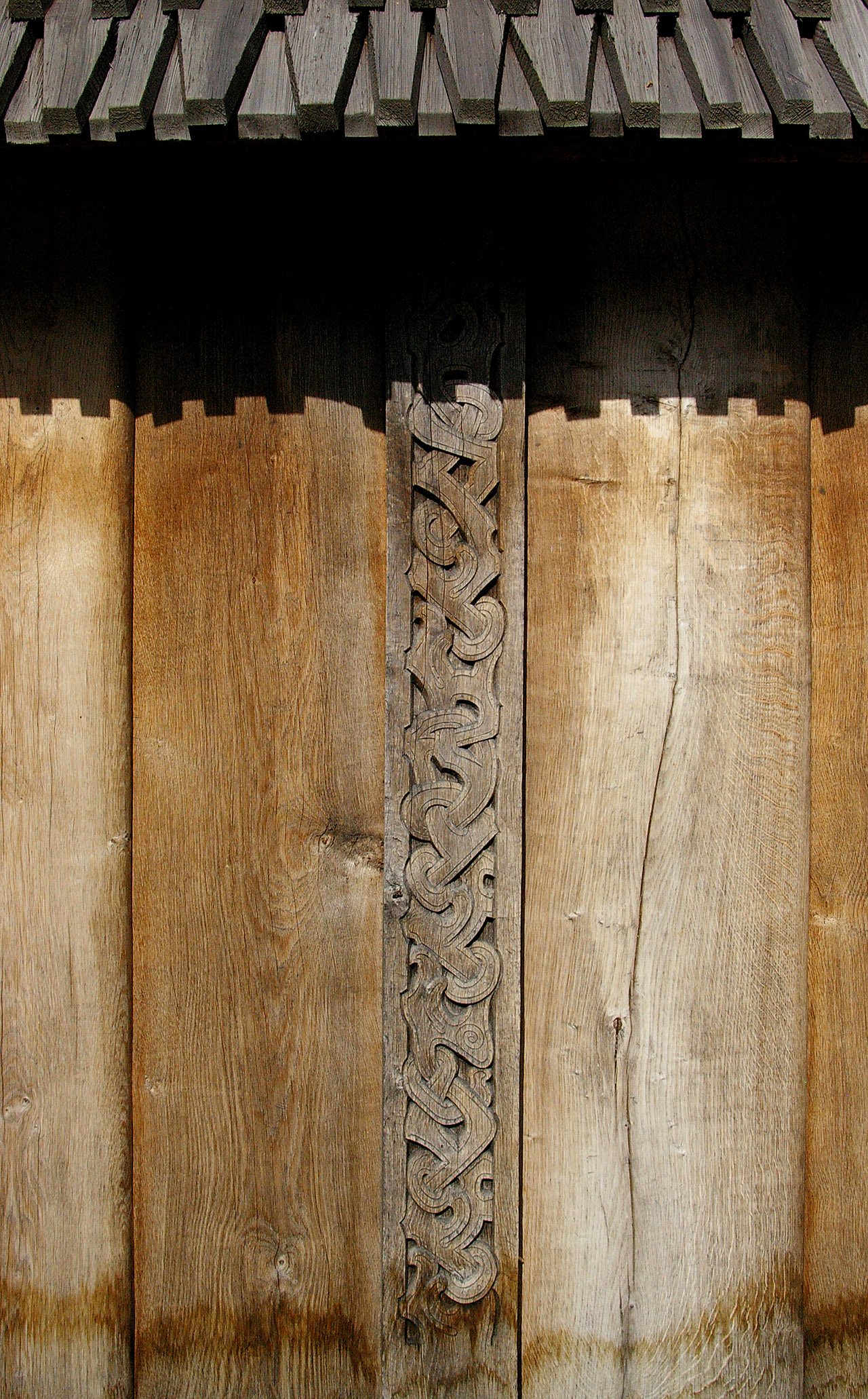 Reconstructed Viking farm at Ale near Göteborg, Sweden.